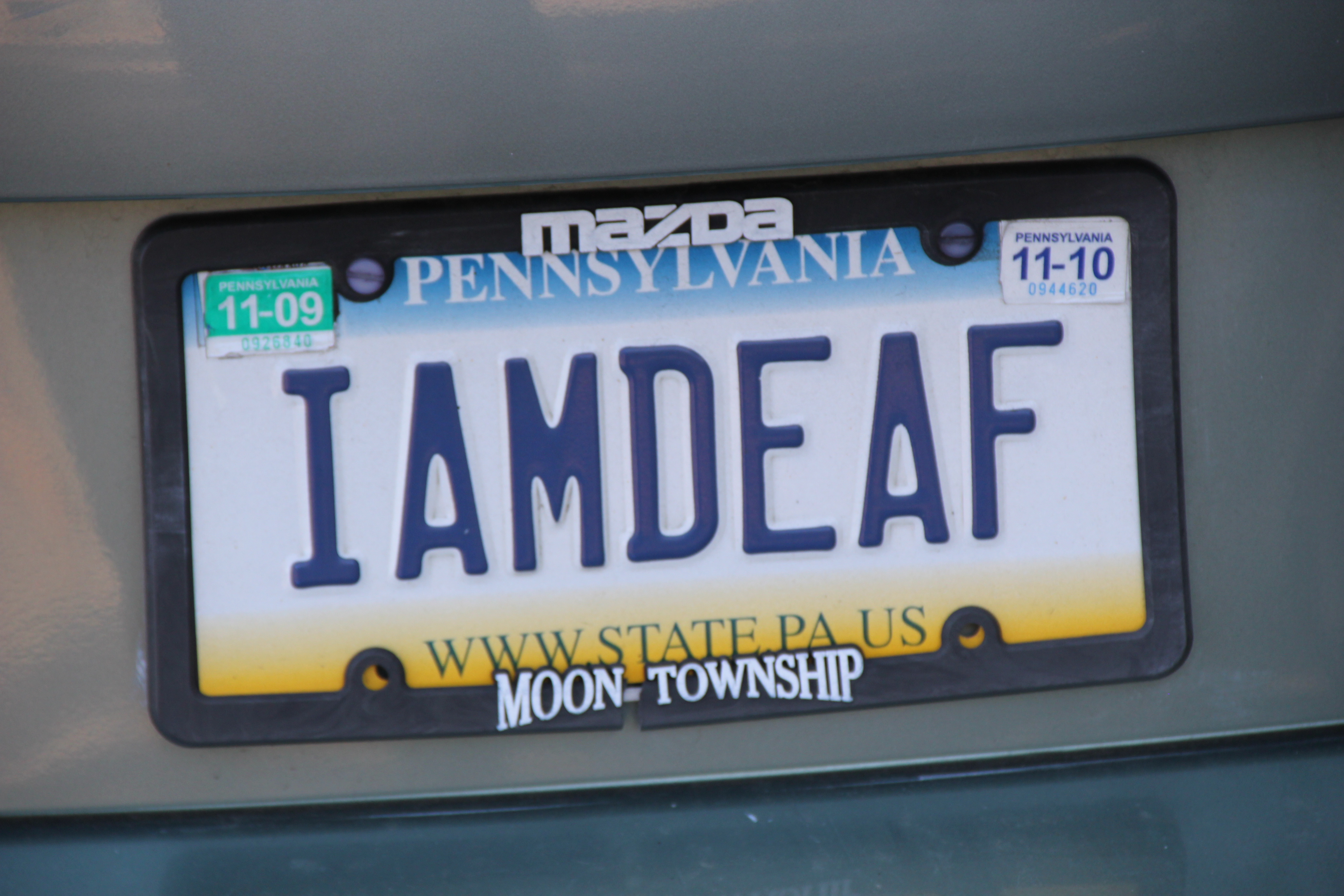 The licence plate stating that its user is Deaf